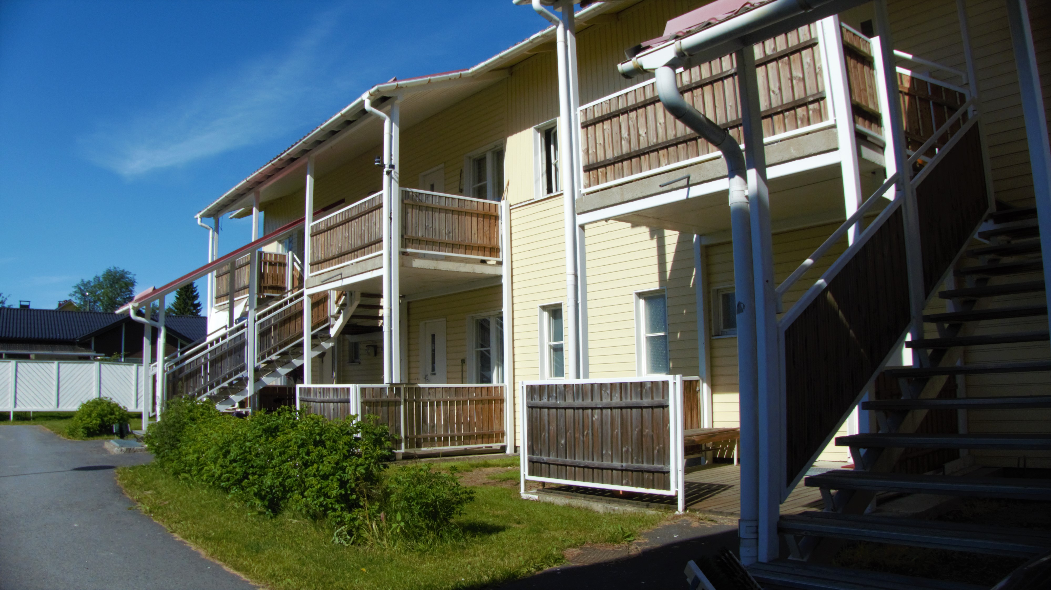 Apartments in Krouvarinkatu, Jouppi, Seinäjoki